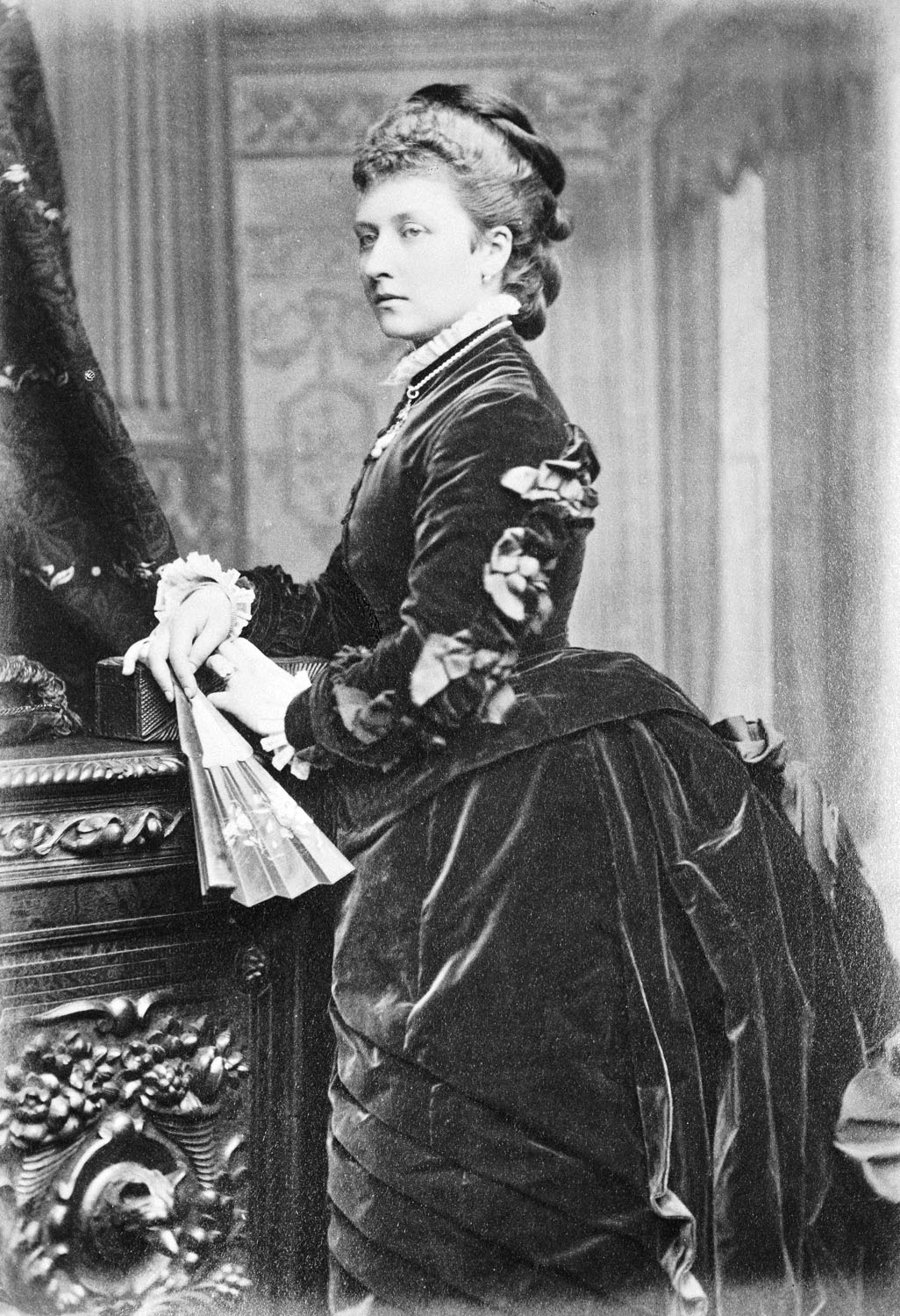 Princess Louise, Duchess of Argyll. Touched up in Photoshop